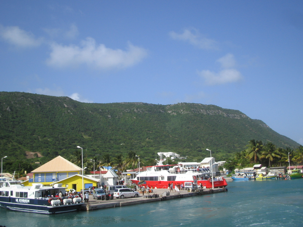 Beausejour village in Desirade